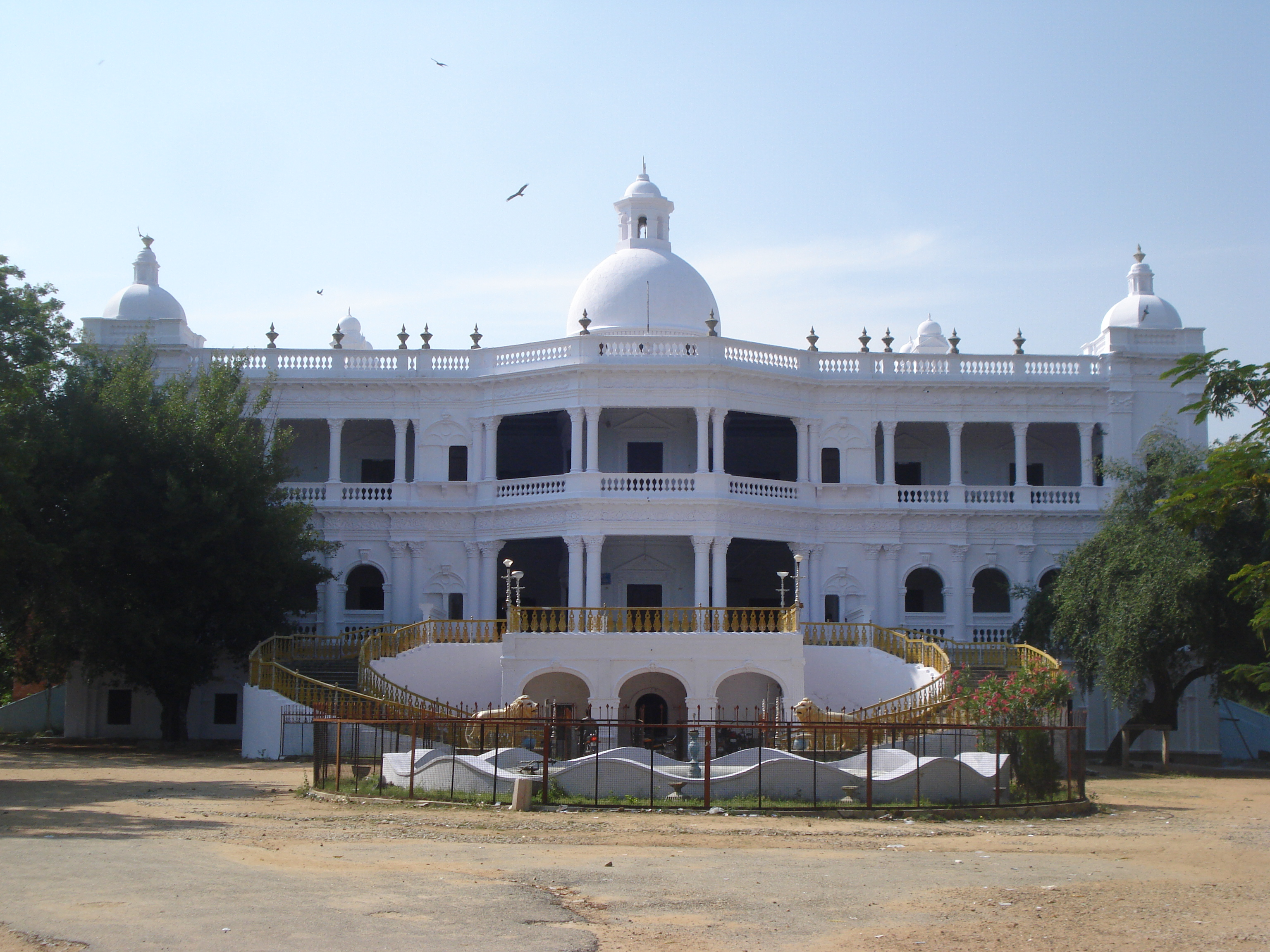 Palace of the Wanapathy Maharaja